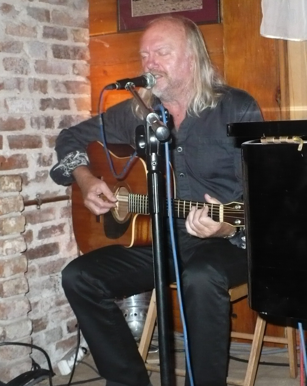 Polish singer Andrzej Sikorowski during a concert in Biały Borek, Biskupice, Poland.